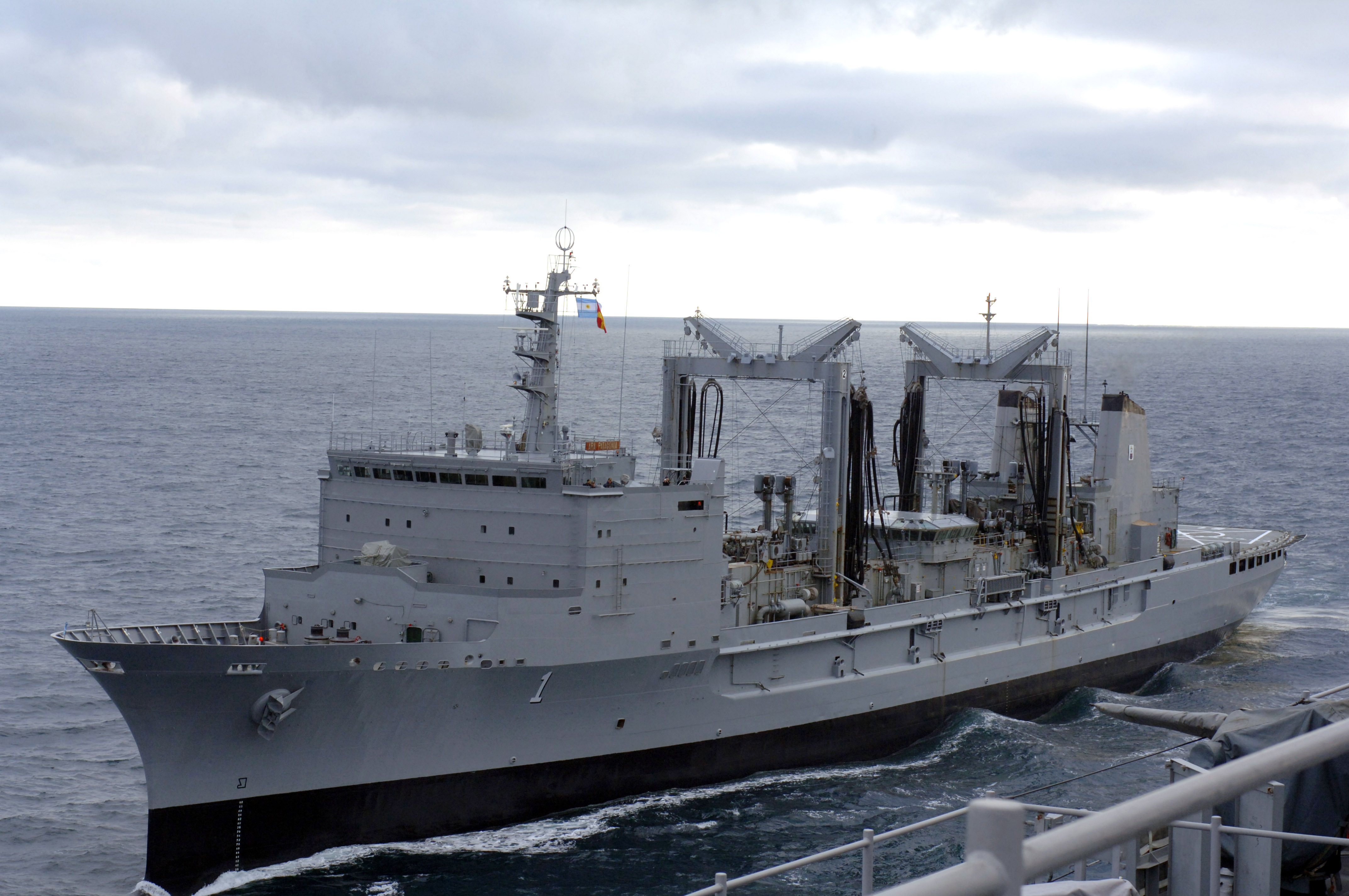 PUERTO BELGRANO, Argentina (May 04, 2007) - The Argentine supply ship ARA Patagonia (B 1) participates in exercises alongside dock landing ship USS Pearl Harbor (LSD 52) to mark the beginning of UNITAS. Navies from Argentina, Brazil, Chile, Spain and the United States are participating in UNITAS Atlantic 48-2007 from May 2-13 off the coast of Argentina. UNITAS is a combined South American- and U.S.-sponsored annual exercise that incorporates forces from several participating nations. Argentina is hosting this year’s Atlantic phase. U.S. Navy photo by Mass Communication Specialist 2nd Class Lenny M. Francioni (RELEASED)